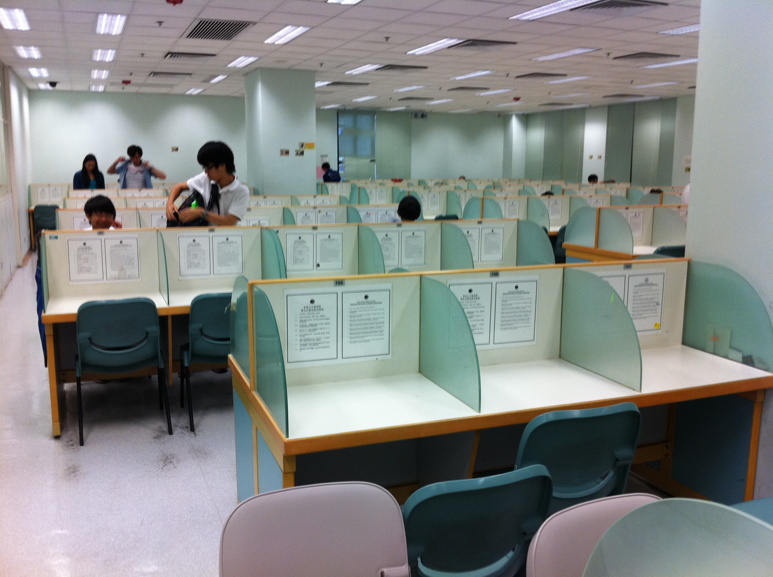 花園街市政大廈, Fa Yuen Street Municipal Services Building, Fife Street, Mongkok, Hong Kong